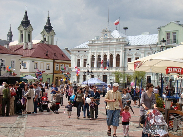 Market in Sanok.